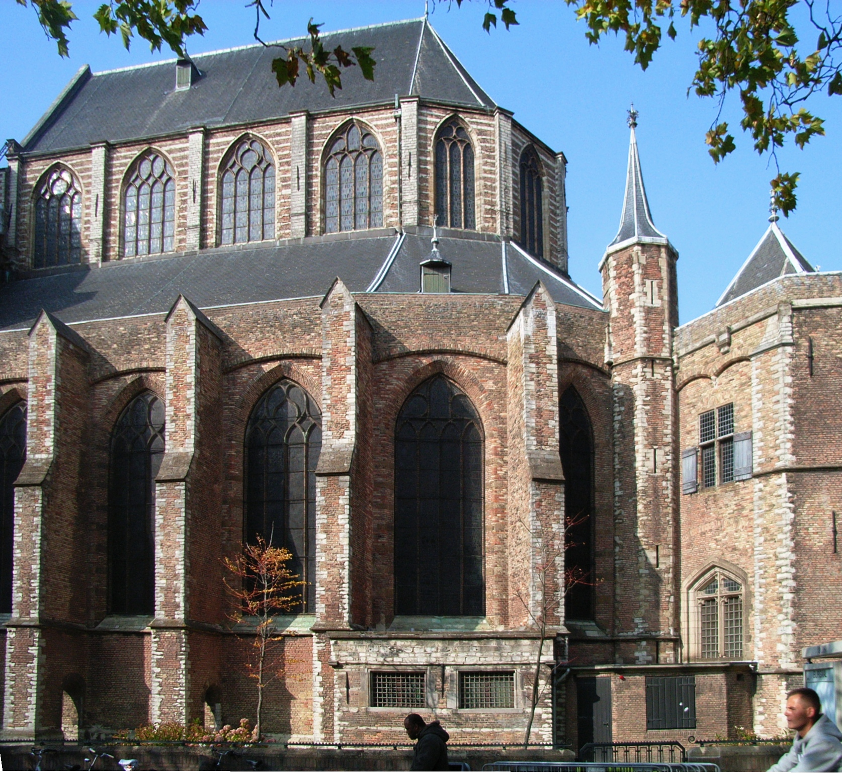 Nieuwe Kerk in Delft, Netherlands. Exterior view to the choir from south.